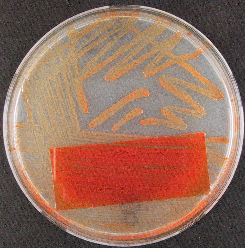 Streptococcus agalactiae. Granada agar. Aerobic incubation